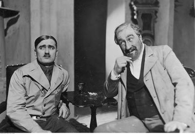 Performance "Family" Antoni Słonimski, Cracow, 1934 - 1939